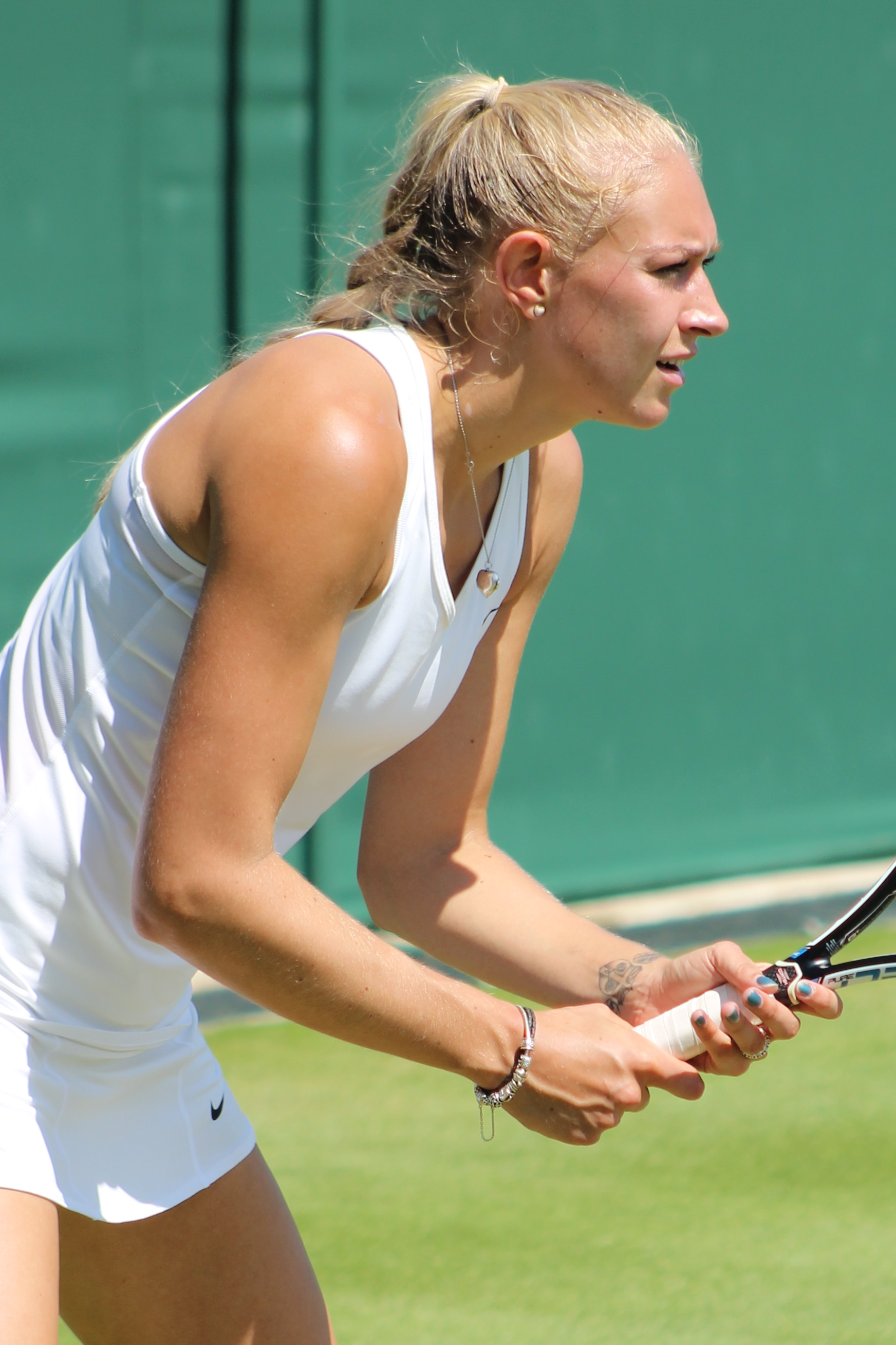 Rae WM15